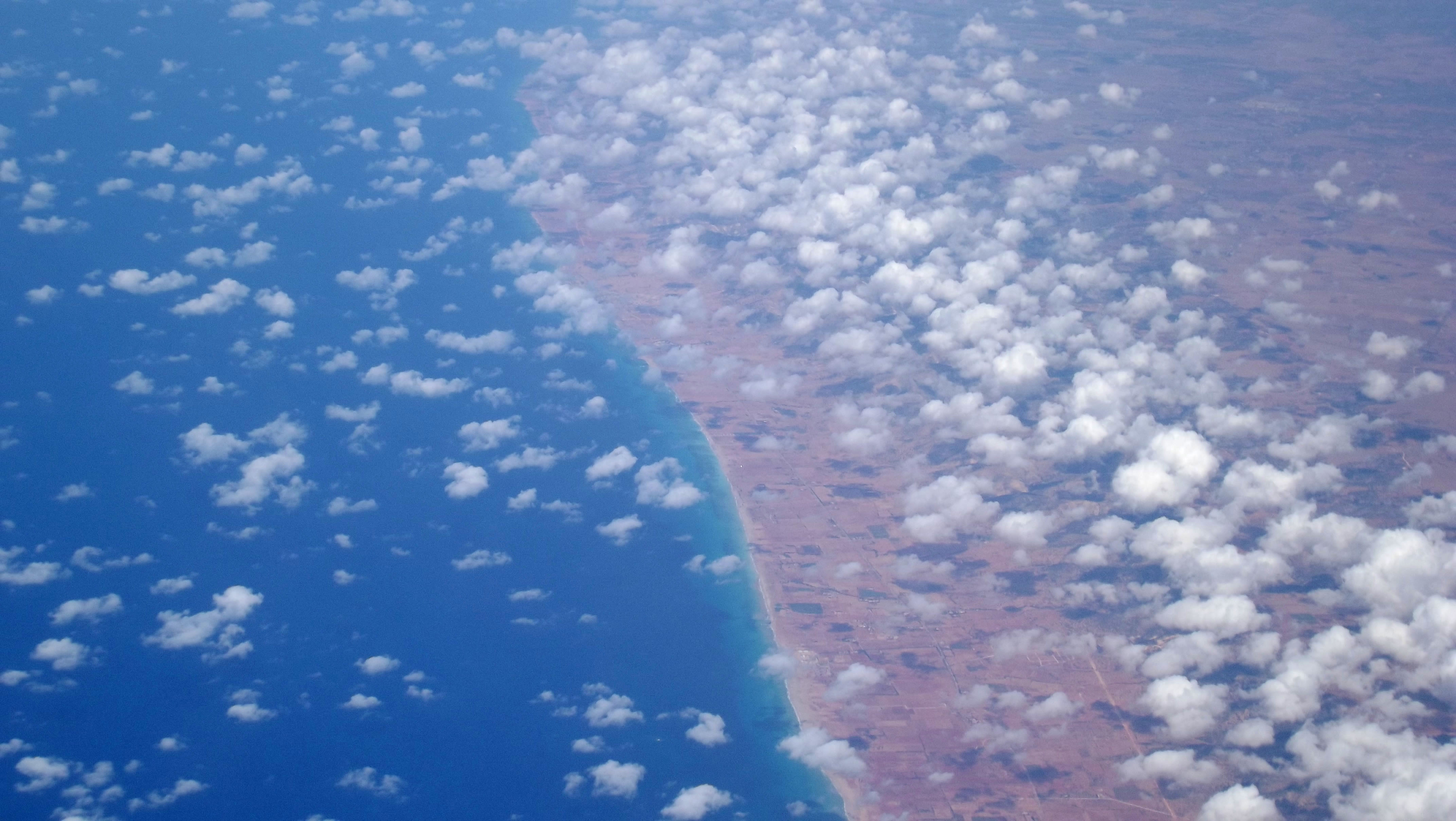 Libyan coast close to Bengazi